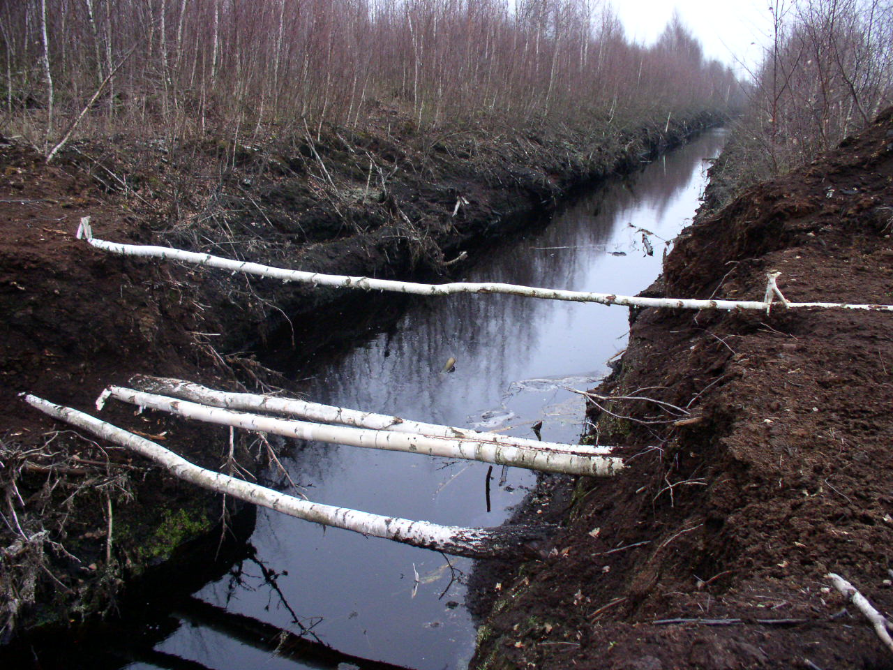 Peat mining near Rudzensk, Belarus.